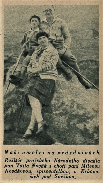 Czech theatre director Vojta Novák with family, 1929